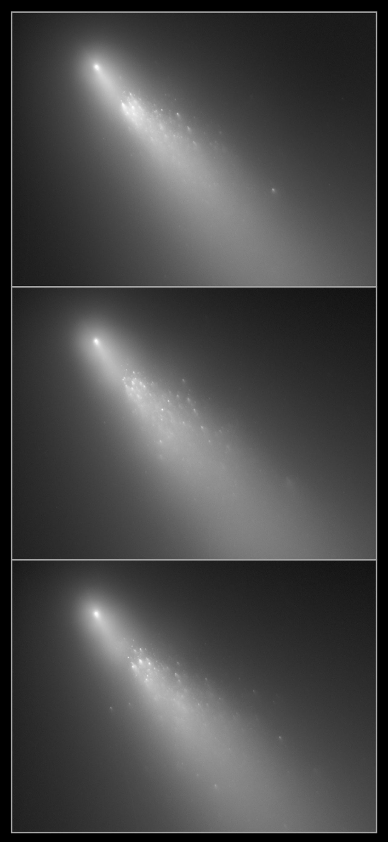 Decomposition of Comet Schwassman-Wachmann 3 by Hubble space telescope.